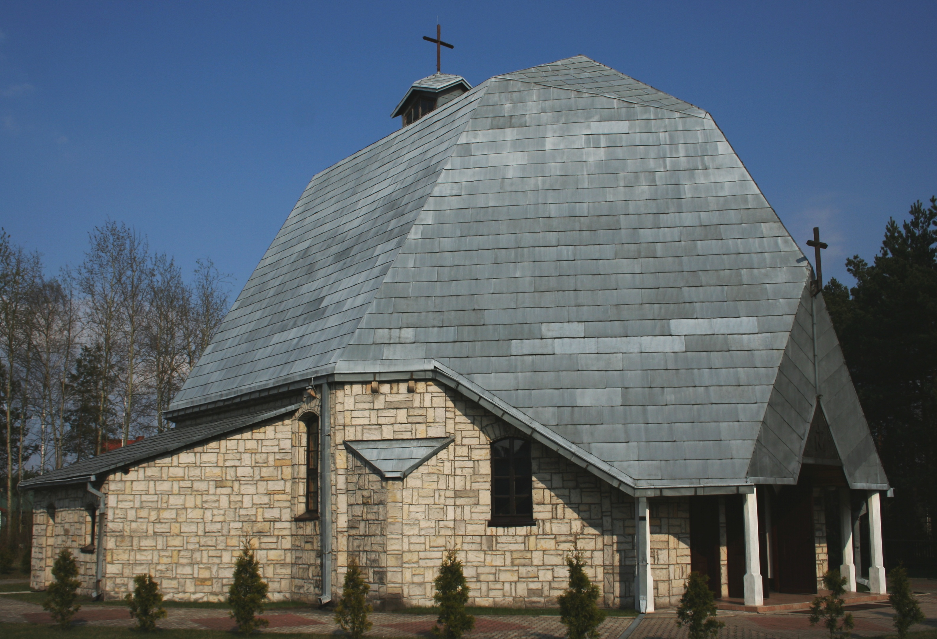 church in Drutarnia, district of Kalety, Poland